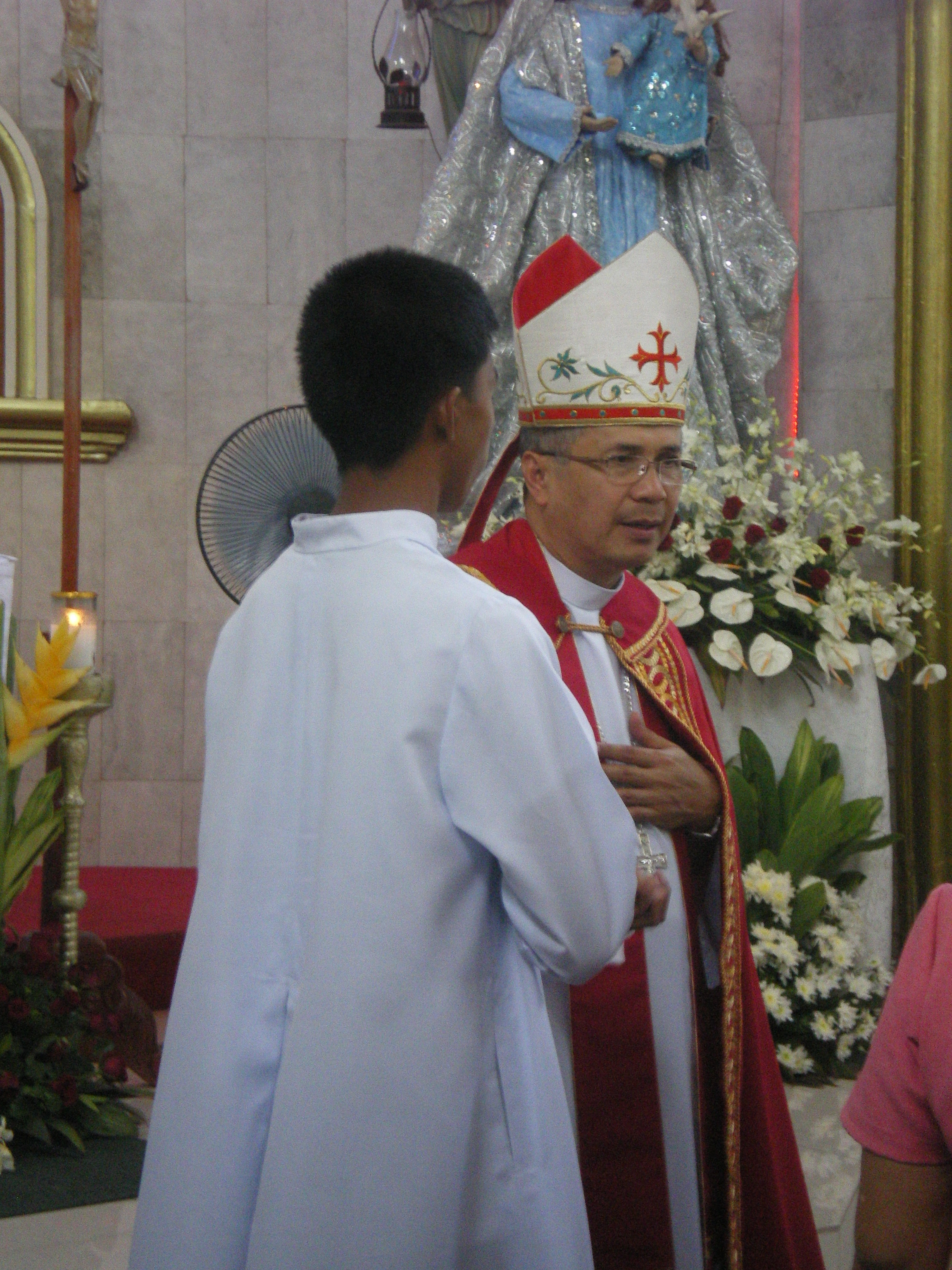 Bishop Evangelista during a Confirmation